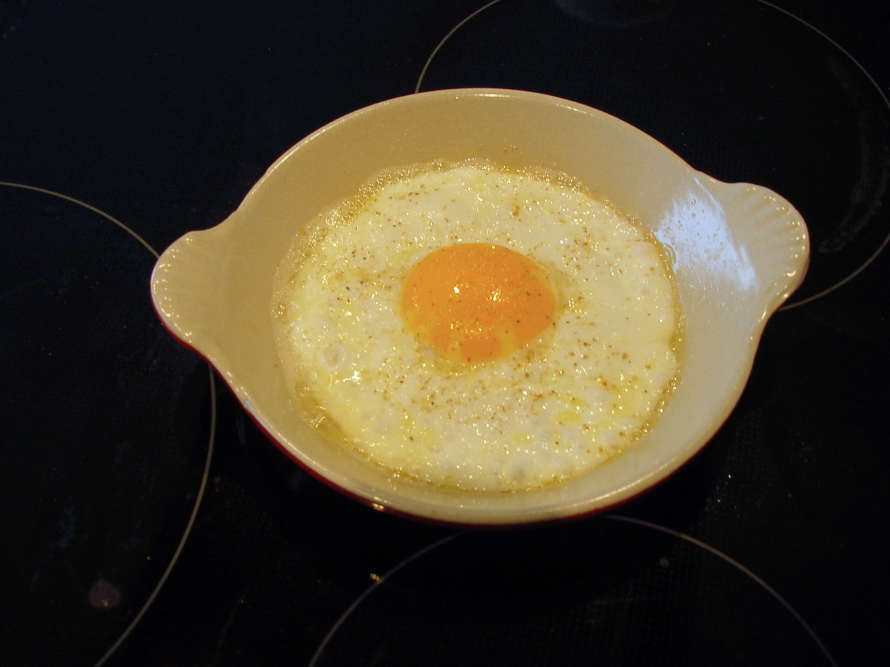 Egg Sunny-side up